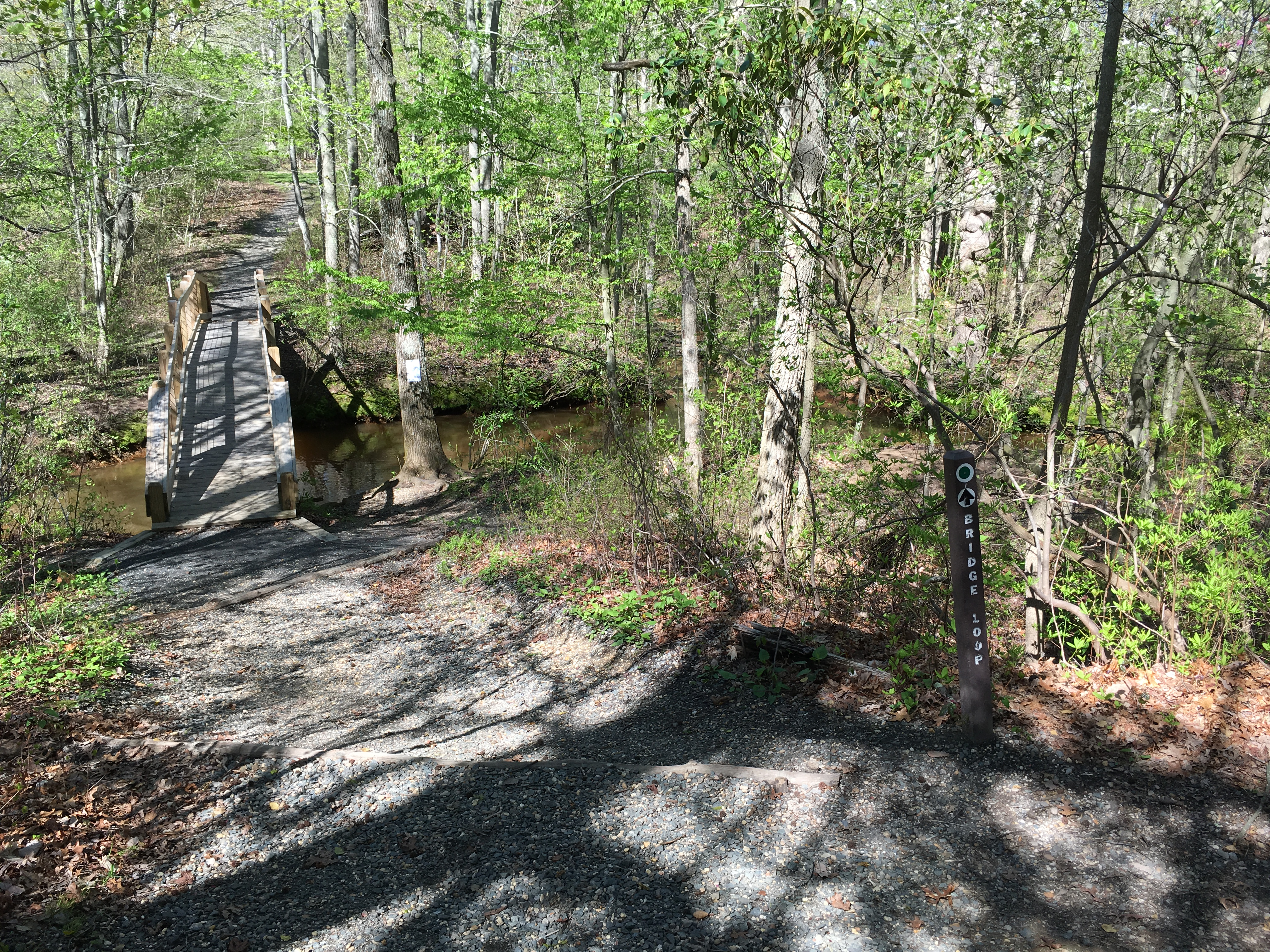 The Bridge Loop Trail and the Shark River at Shark River County Park in Monmouth County, New Jersey. The river is the dividing line between Neptune Township (top) and Wall Township (bottom).